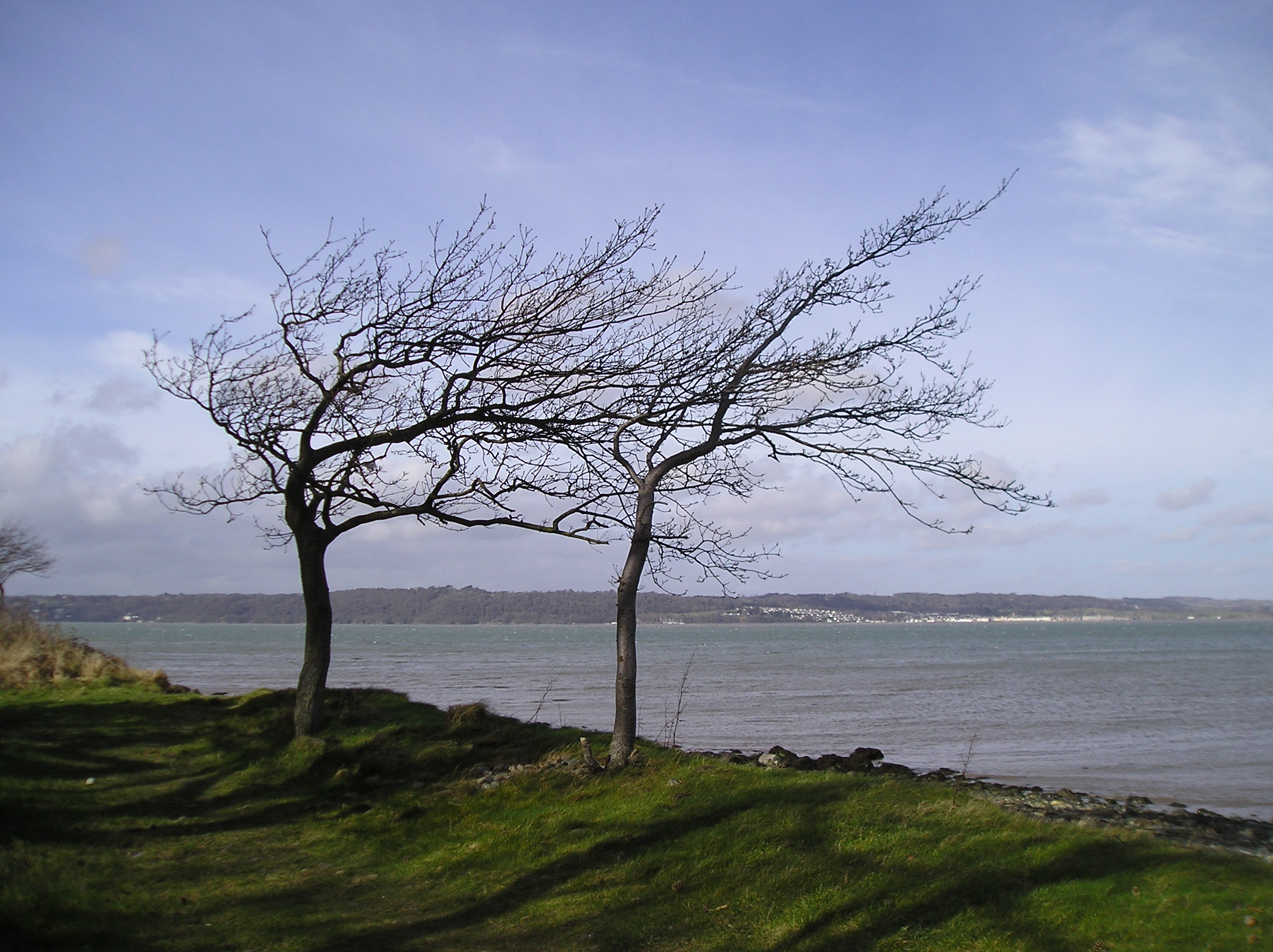 The Edge of Coed Gyfynys